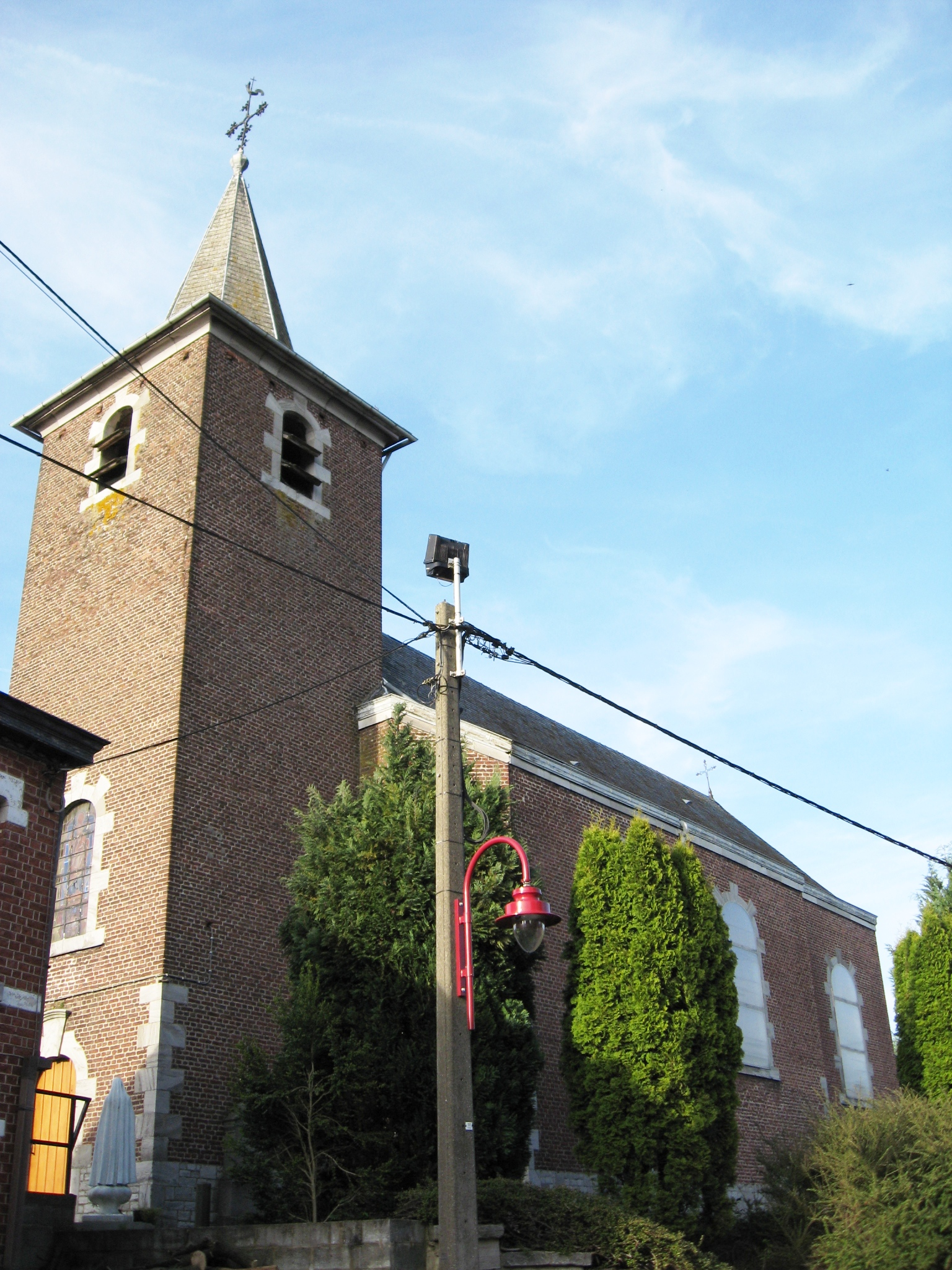 Church of Saint Hubert in Geer, Liège, Belgium